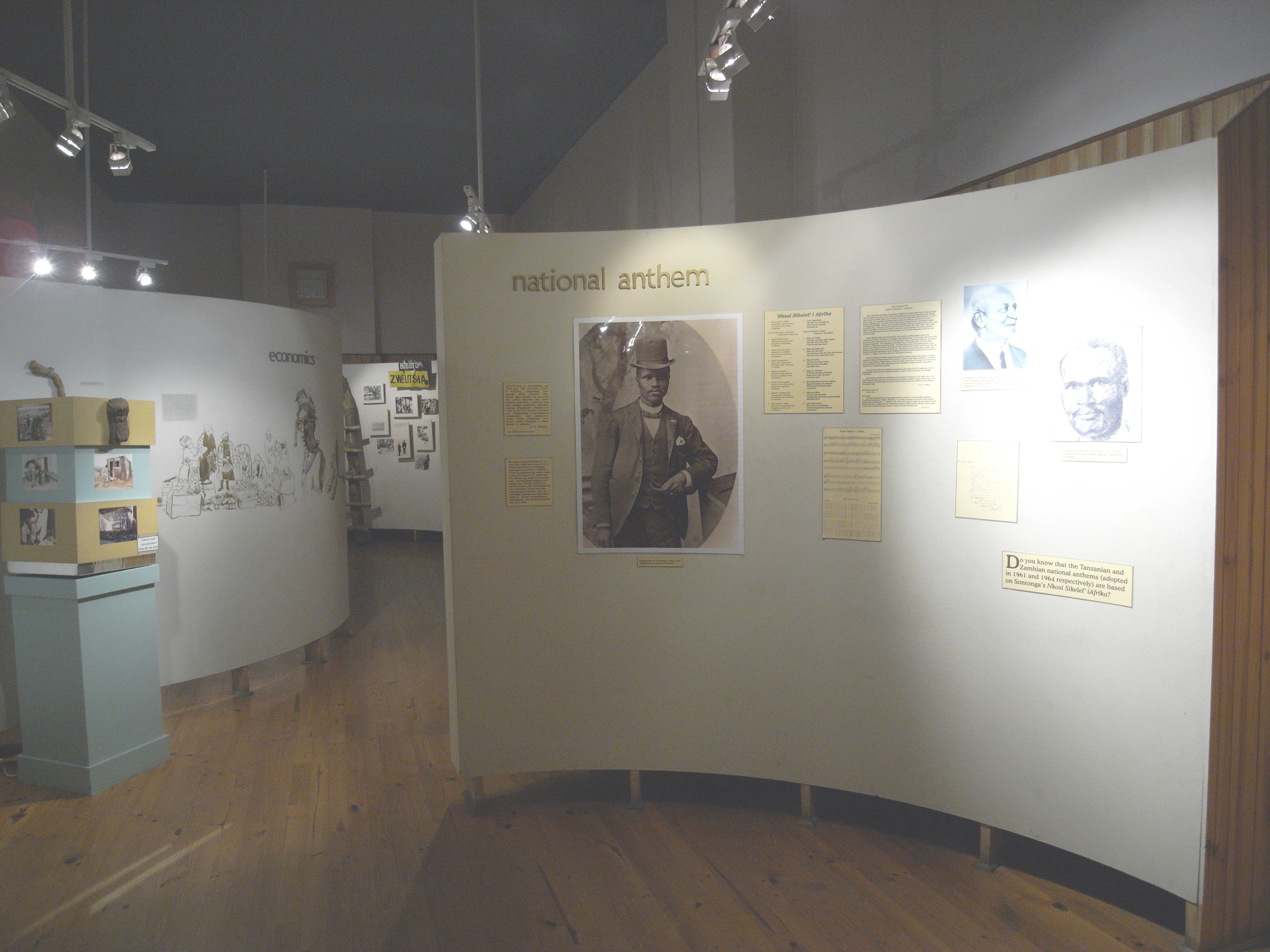 Enoch S. (hymnist)